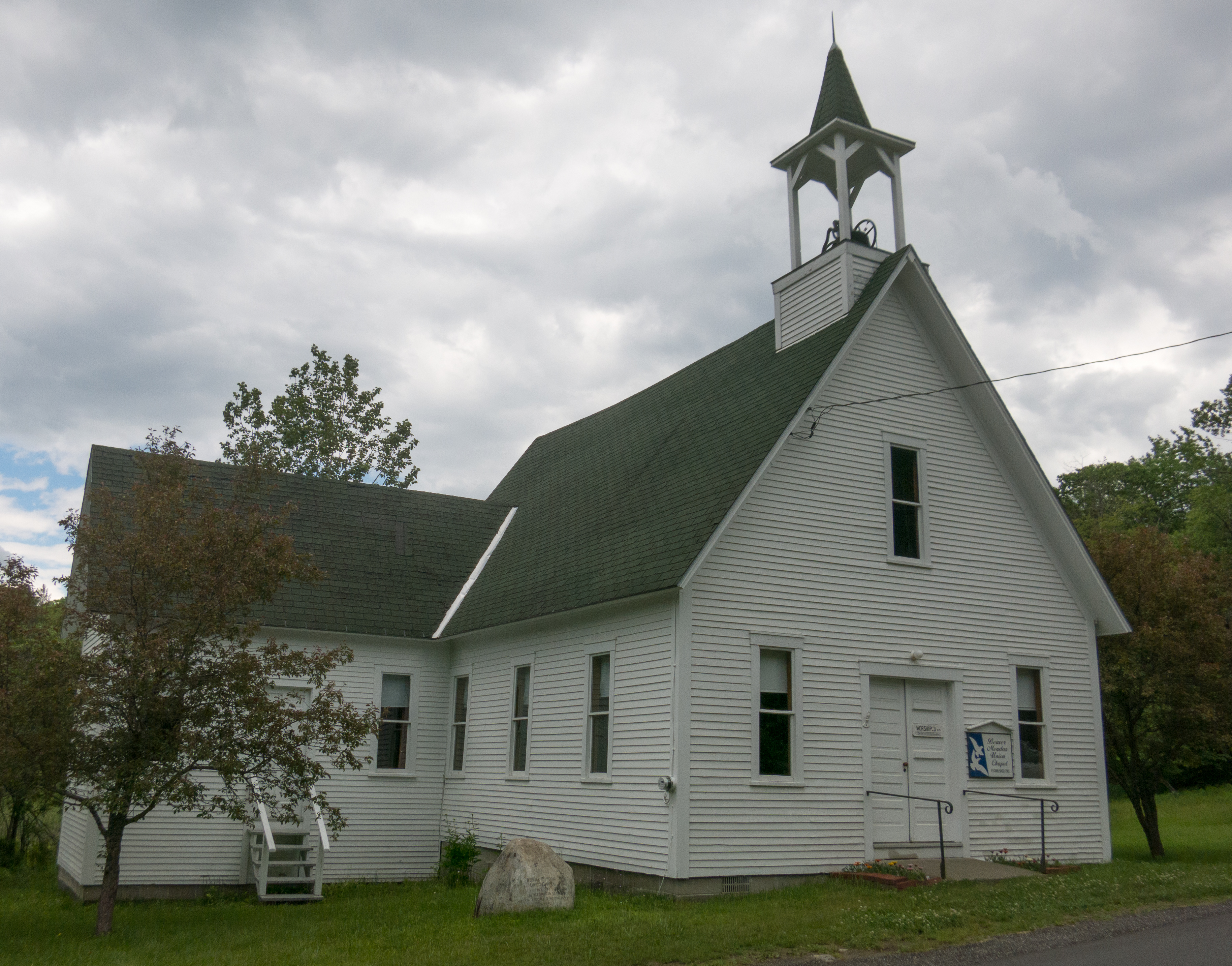 The Beaver Meadow Union Chapel, now also known as the West Norwich Union Church, is a historic church on the north side of Beaver Meadow Road (Vermont Route 126) in Norwich, Vermont. Built in 1915, it is a well-preserved example of vernacular ecclesiastical architecture of the period. It is of national significance as the origin point of the Home Prayers program, essentially a mail-order ministry inspired by the catalogs of Sears, Roebuck. The building was listed on the National Register of Historic Places in 1995.